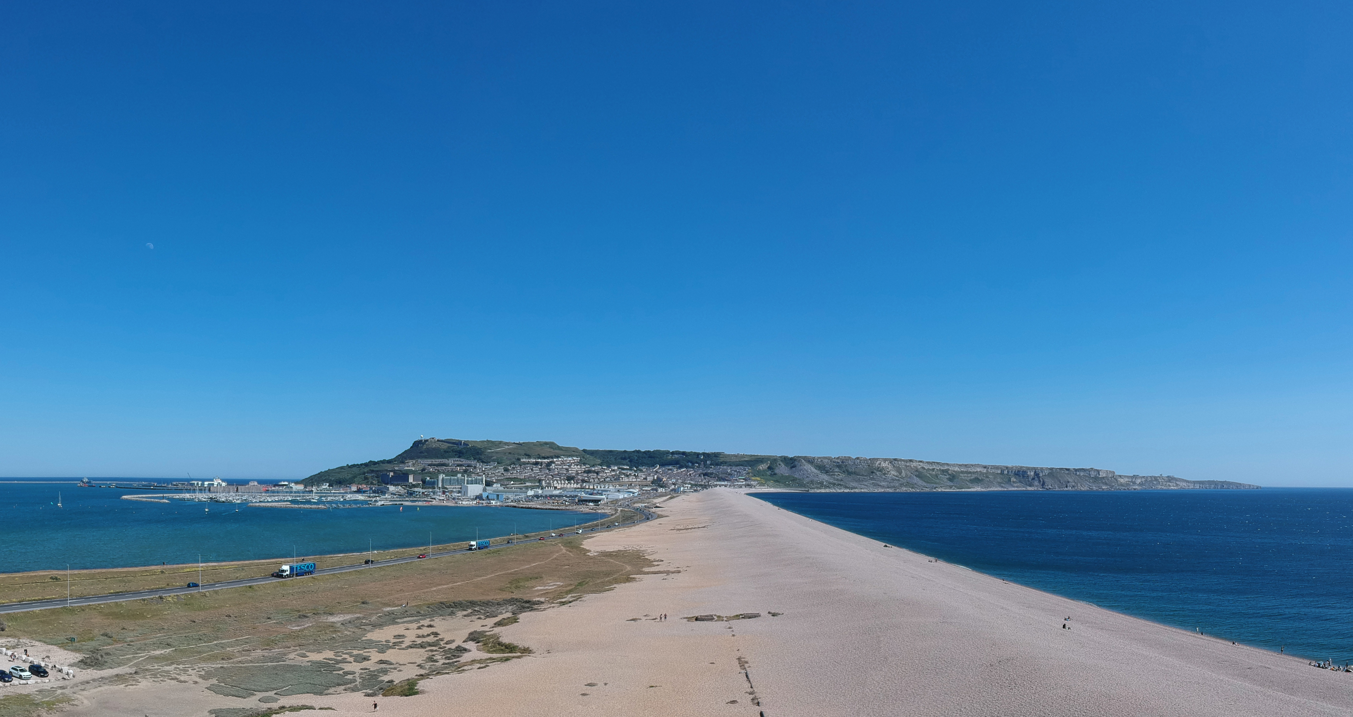 The Isle of Portland, Look from the chisel beach.